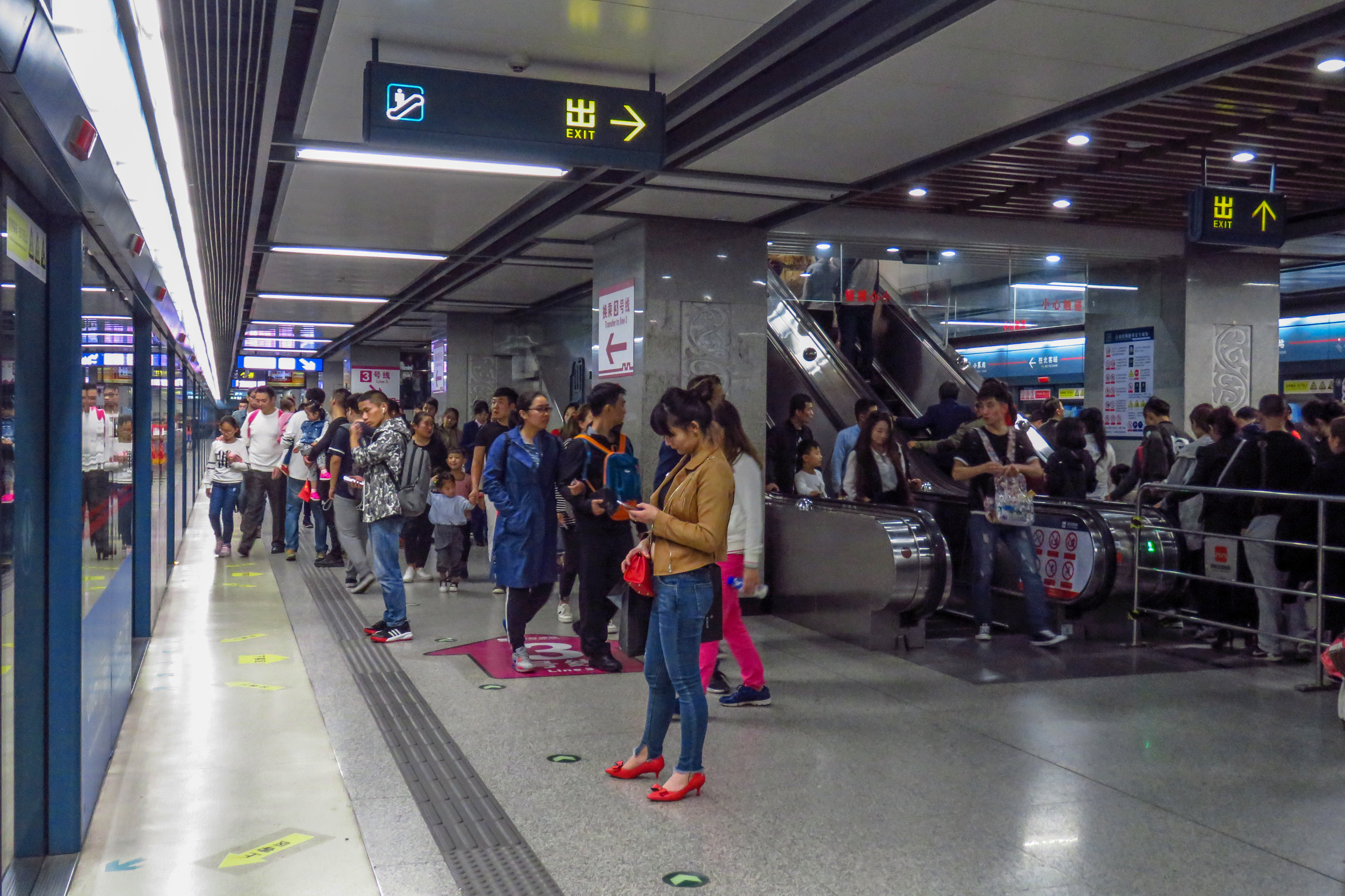 Interchange station with heavy traffic on this holiday Monday evening. Xiaozhai is not to be confused with Zhaikou...